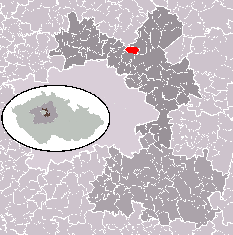 Location of Polerady municipality within Prague-East District and administrative area of Brandýs nad Labem-Stará Boleslav as a Municipality with Extended Competence.